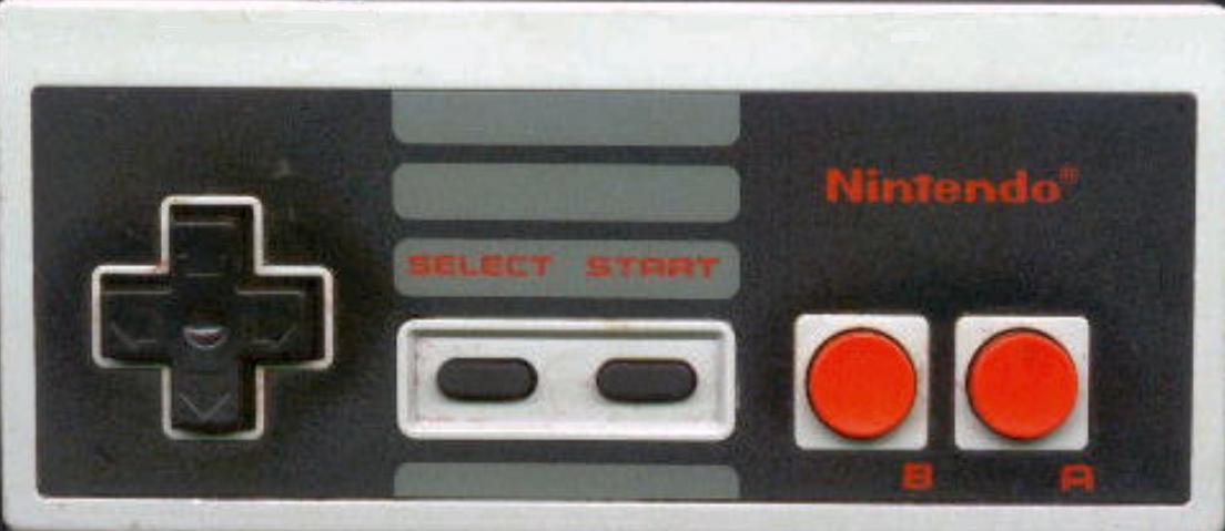 NES controller